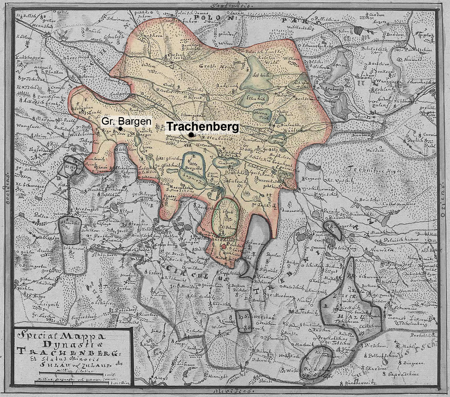 Location of Groß Bargen in State Country Trachenberg